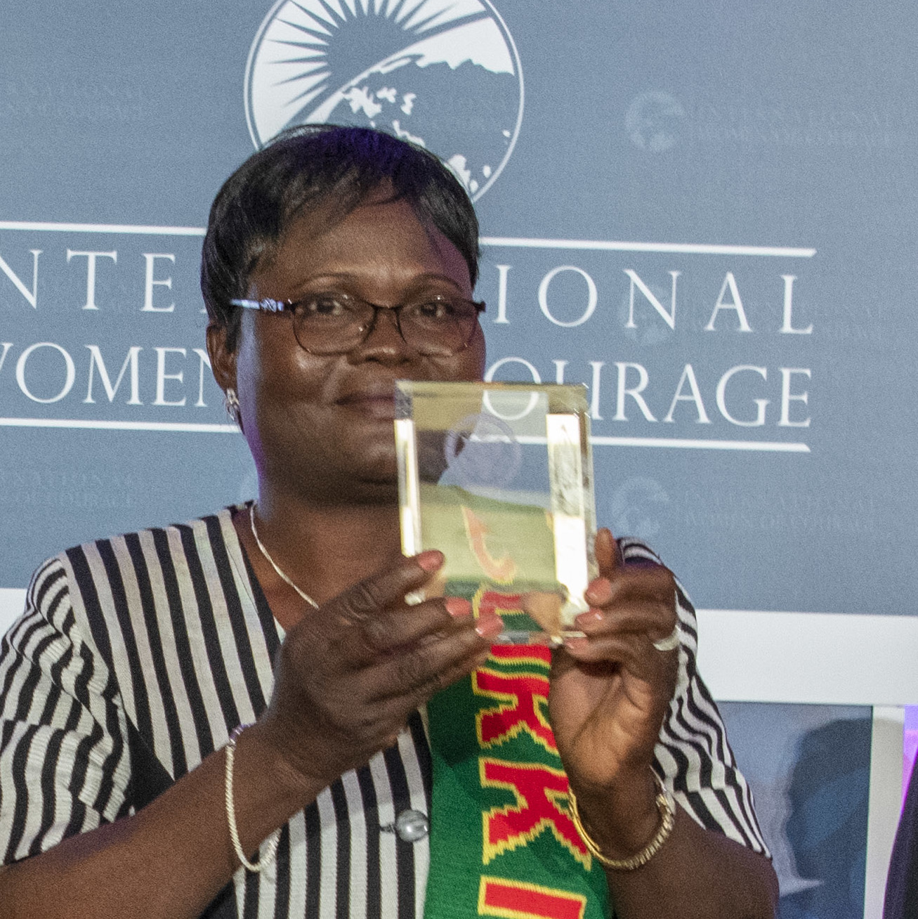 Secretary of State Michael R. Pompeo, First Lady of the United States Melania Trump, and awardee Claire Ouedraogo of Burkina Faso pose for a photo, at the Department of State on March 4, 2020. [State Department photo by Freddie Everett/ Public Domain]